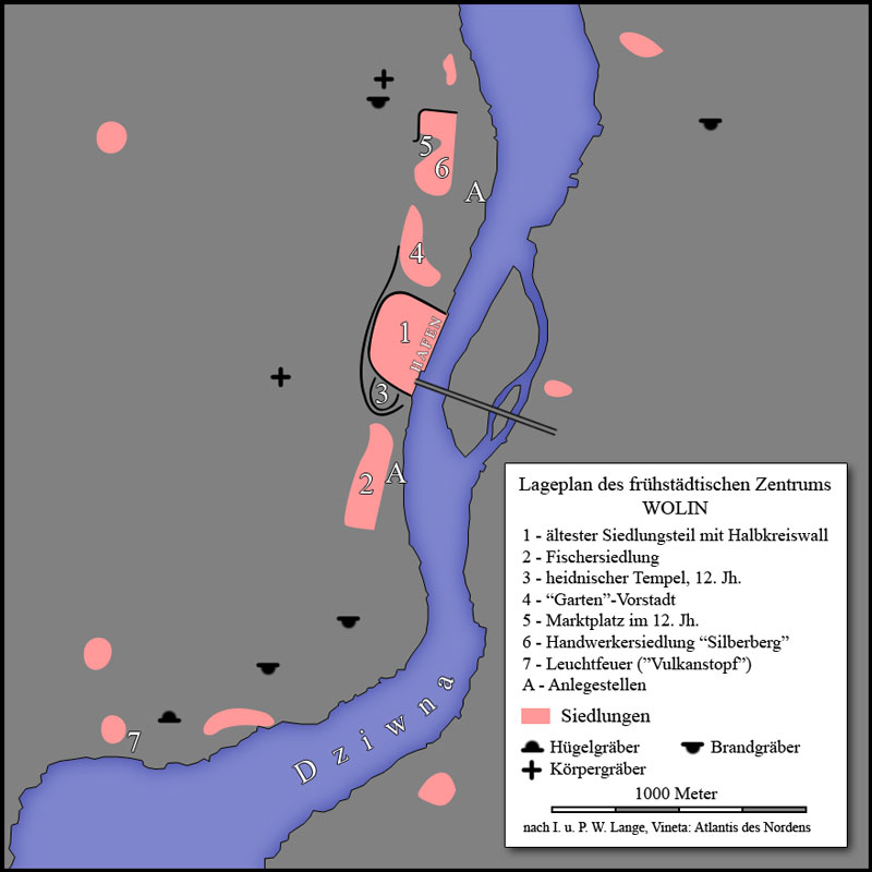 Map of the early urban centre of Wolin.